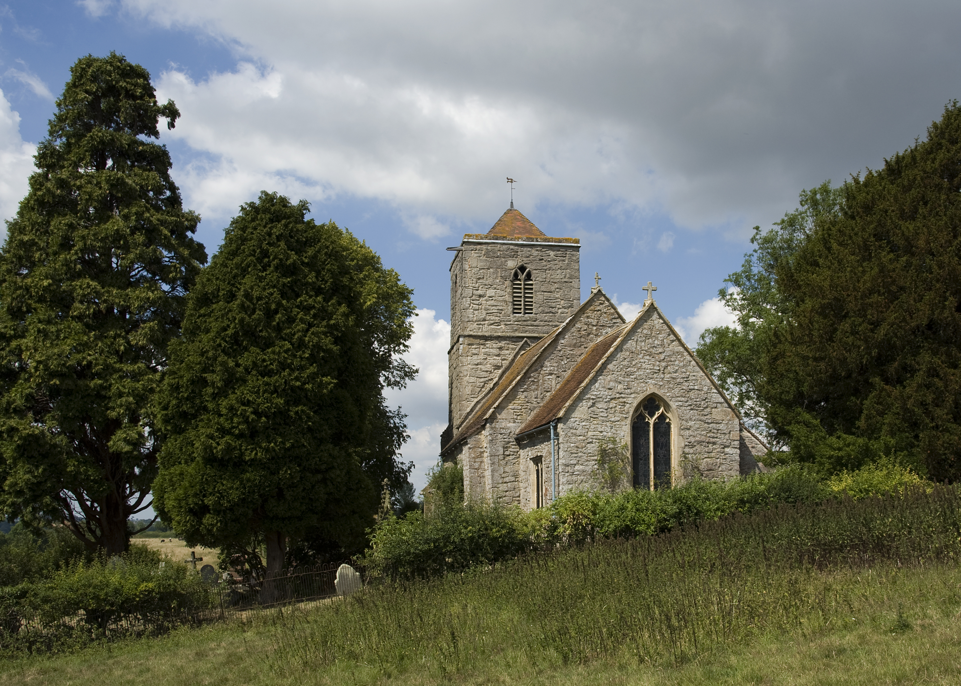 Pendock Church is a redundant Anglican church standing to the southeast of the hamlet of Sledge Green in the parish of Pendock, Worcestershire, England. It has been designated by English Heritage as a Grade I listed building, and is under the care of the Churches Conservation Trust. The church dates from the 12th century.